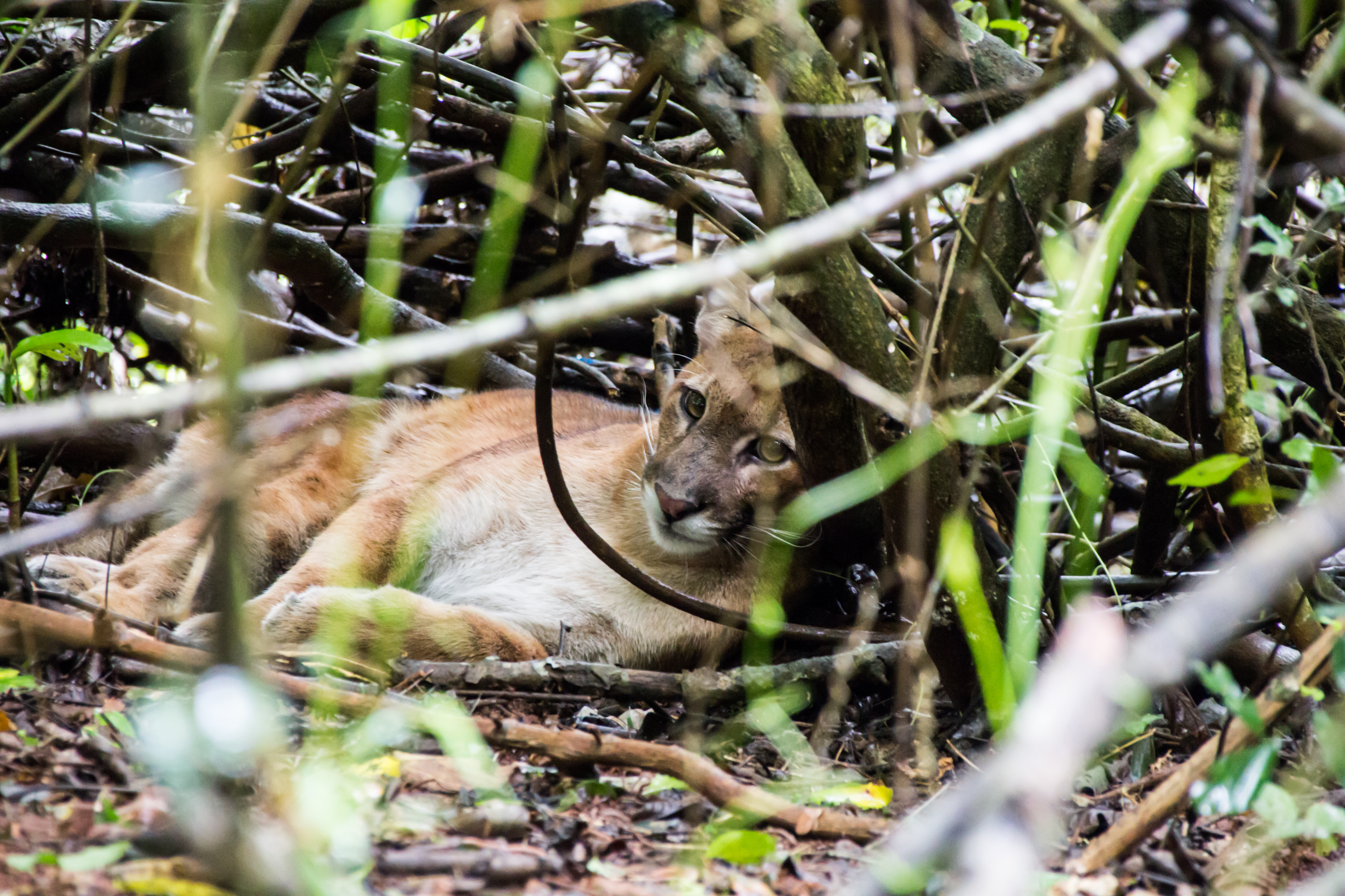 Wild Puma